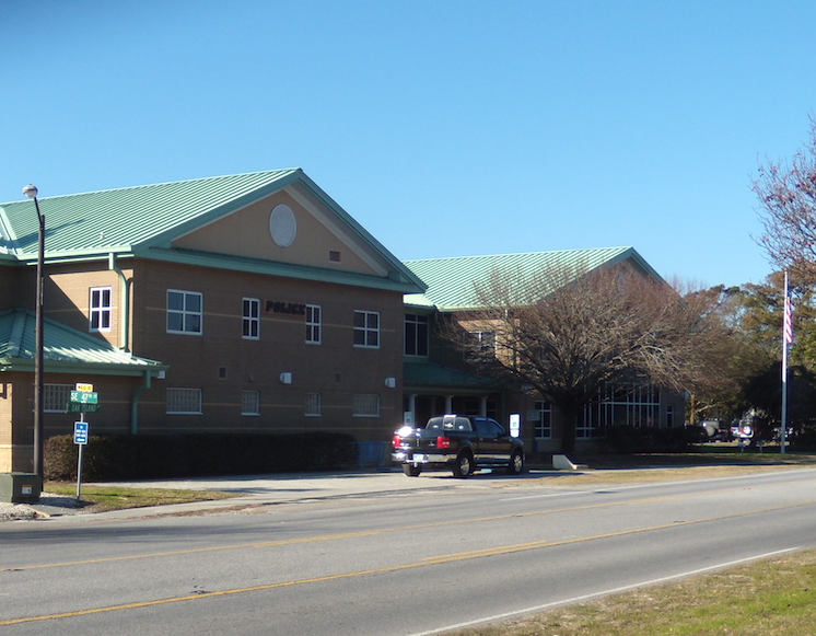 Photo taken from Oak Island Dr. of Government Complex